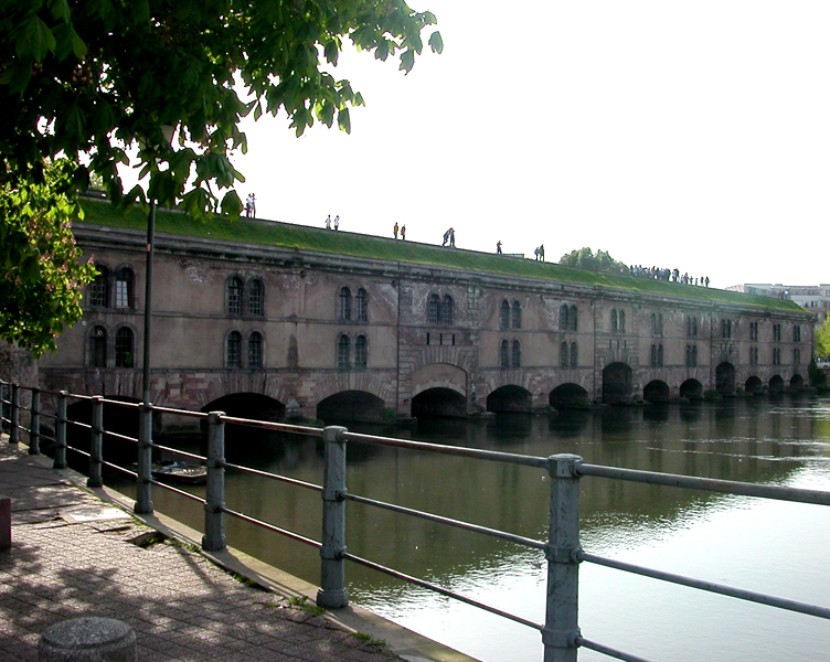 Le barrage Vauban, architecture militaire. The Barrage Vauban (Vauban weir) is a weir erected in the 17th century on the river Ill west of the "Petite France" district in Strasbourg. It was constructed from 1686 to 1700 by the French Engineer Jacques Tarade according to plans by Vauban.